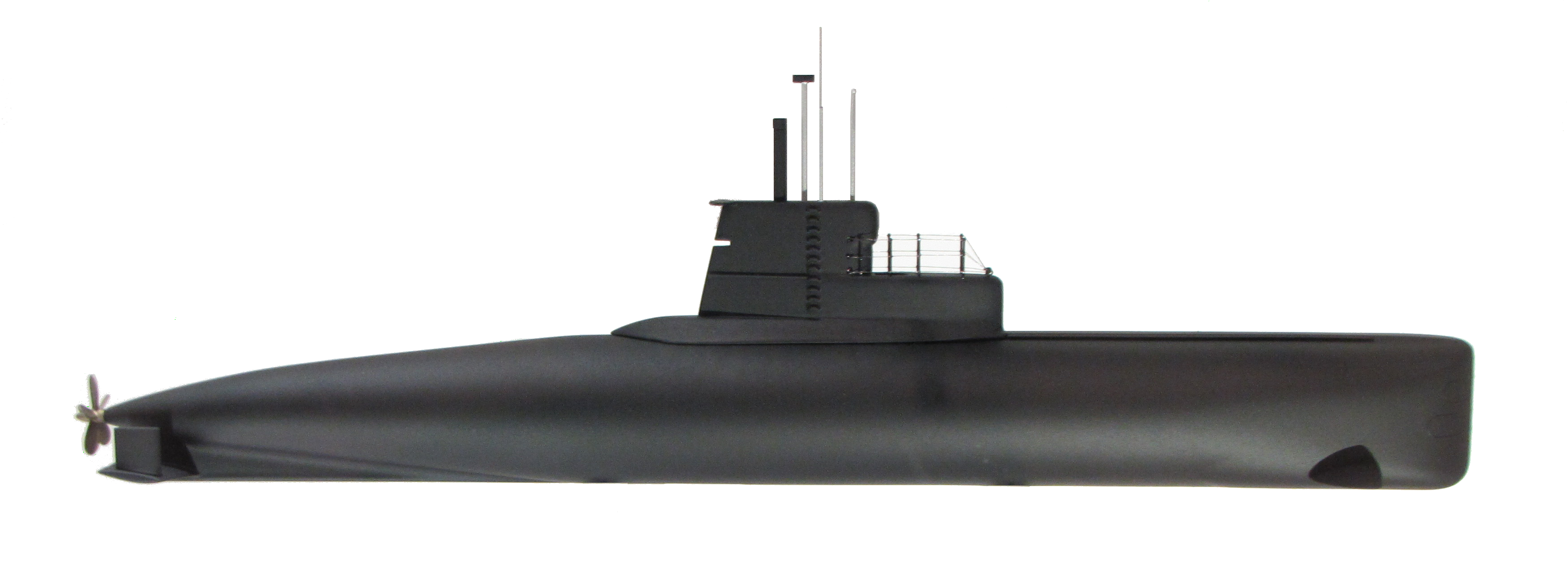 Model of the german submarine class 201 in the Bundeswehr Military History Museum in Dresden